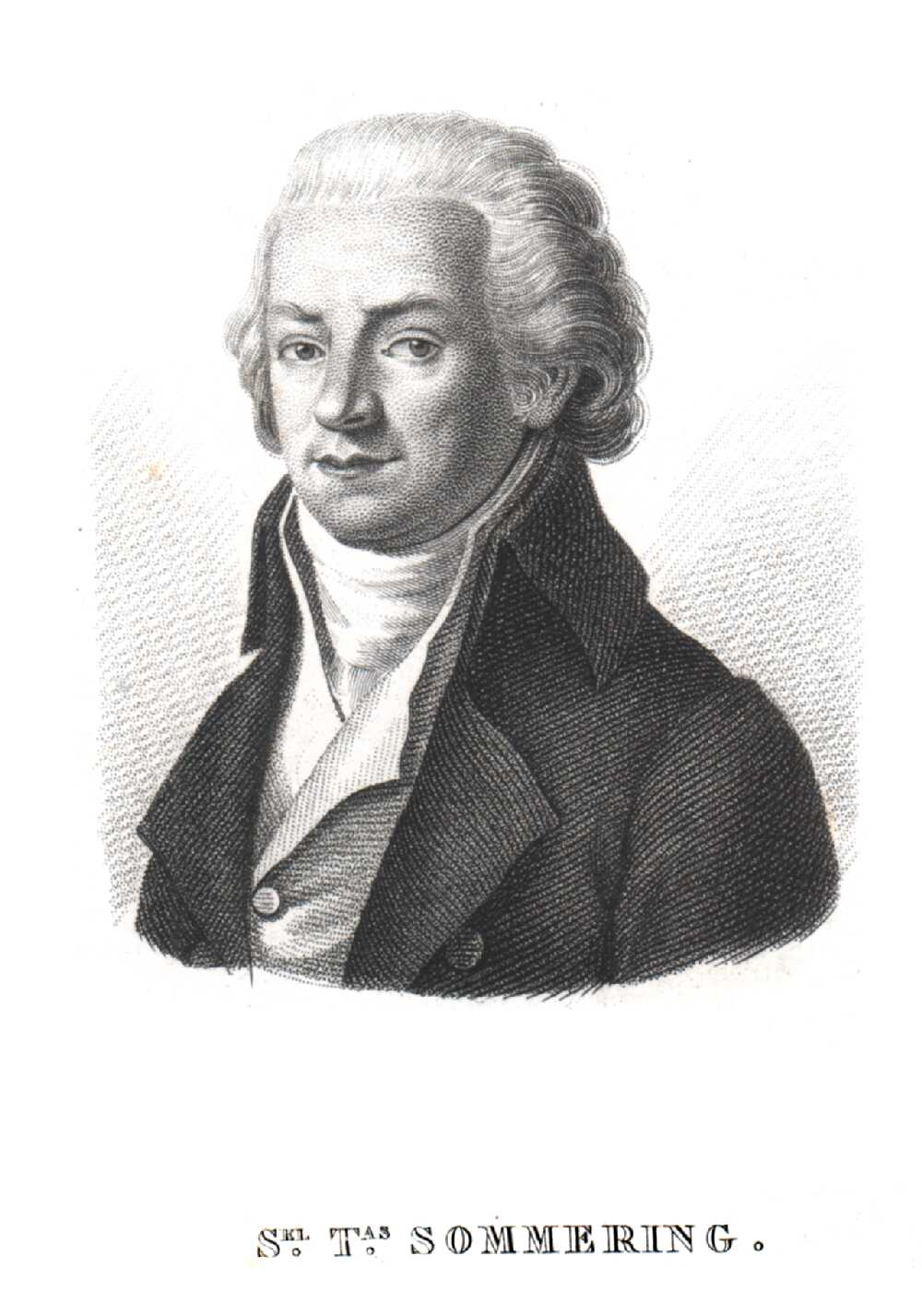 Samuel Thomas von Sömmering, Graphic: 8 x 6.5 cm / Sheet: 13 x 10 cm